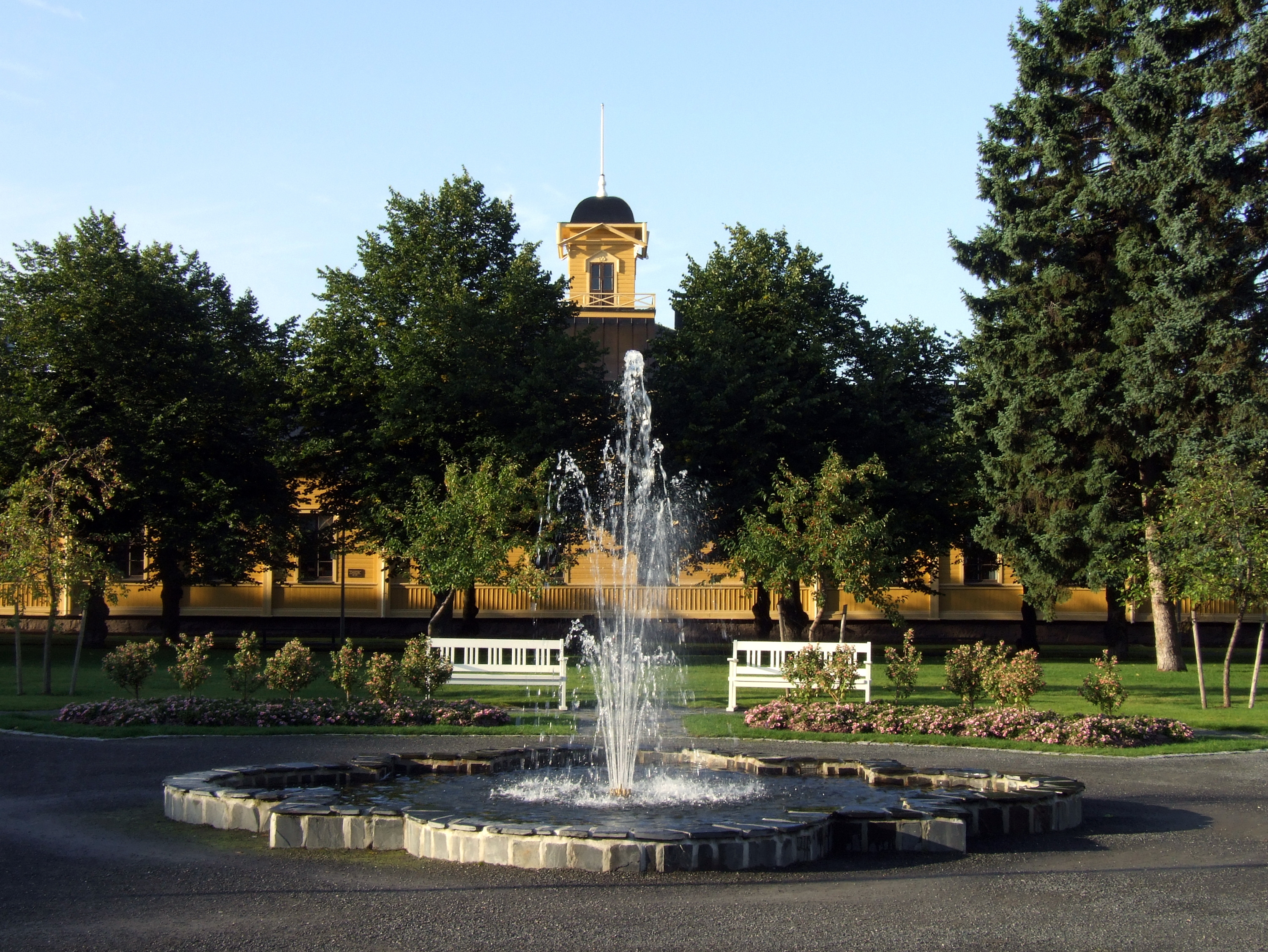 Heinätorinpuisto park in Oulu. The building in the background is the Heinätori Primary School (by Wolmar Westling in 1875).